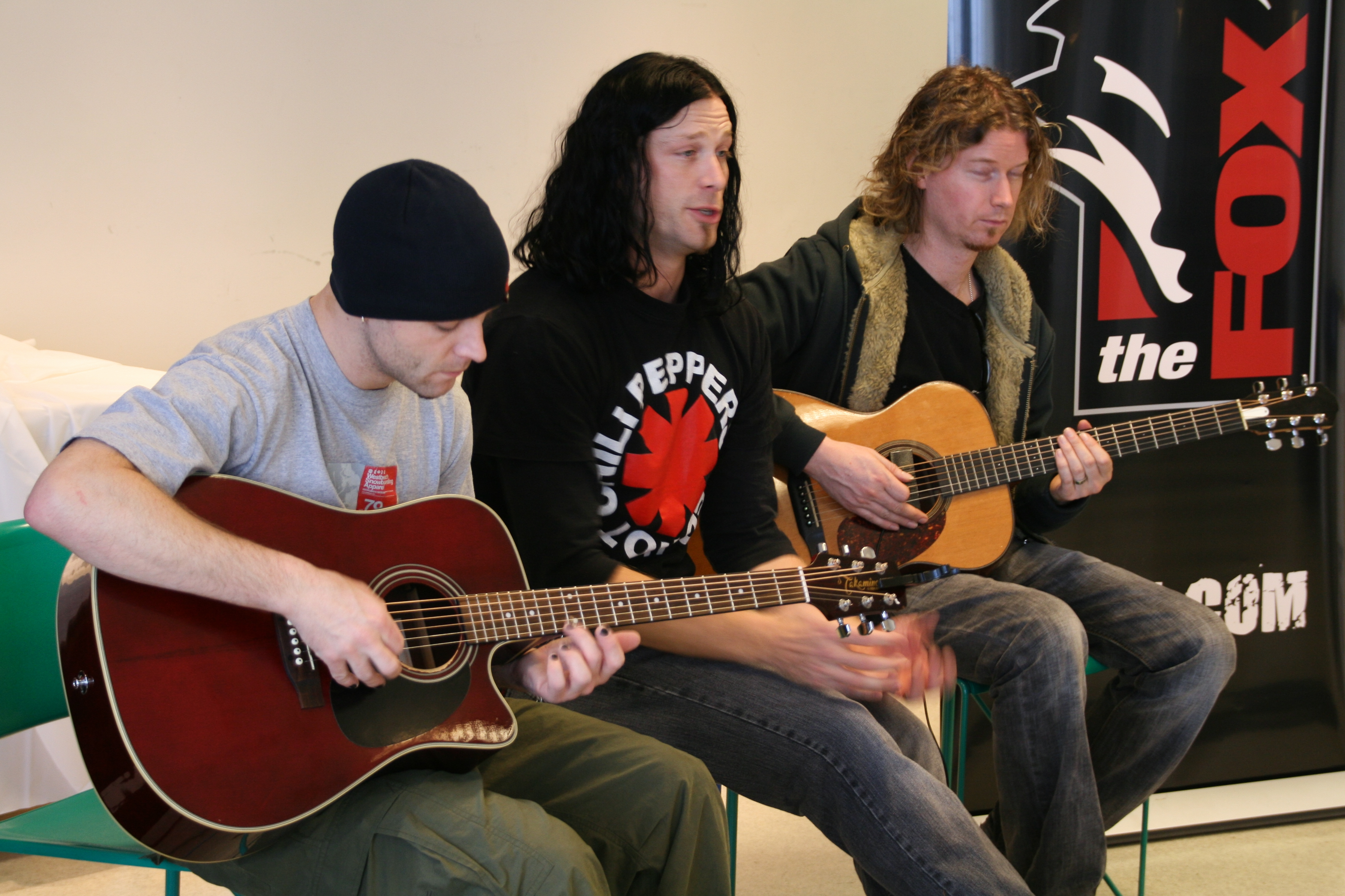 The Canadian rock group Art of Dying (band) performing in 2007.